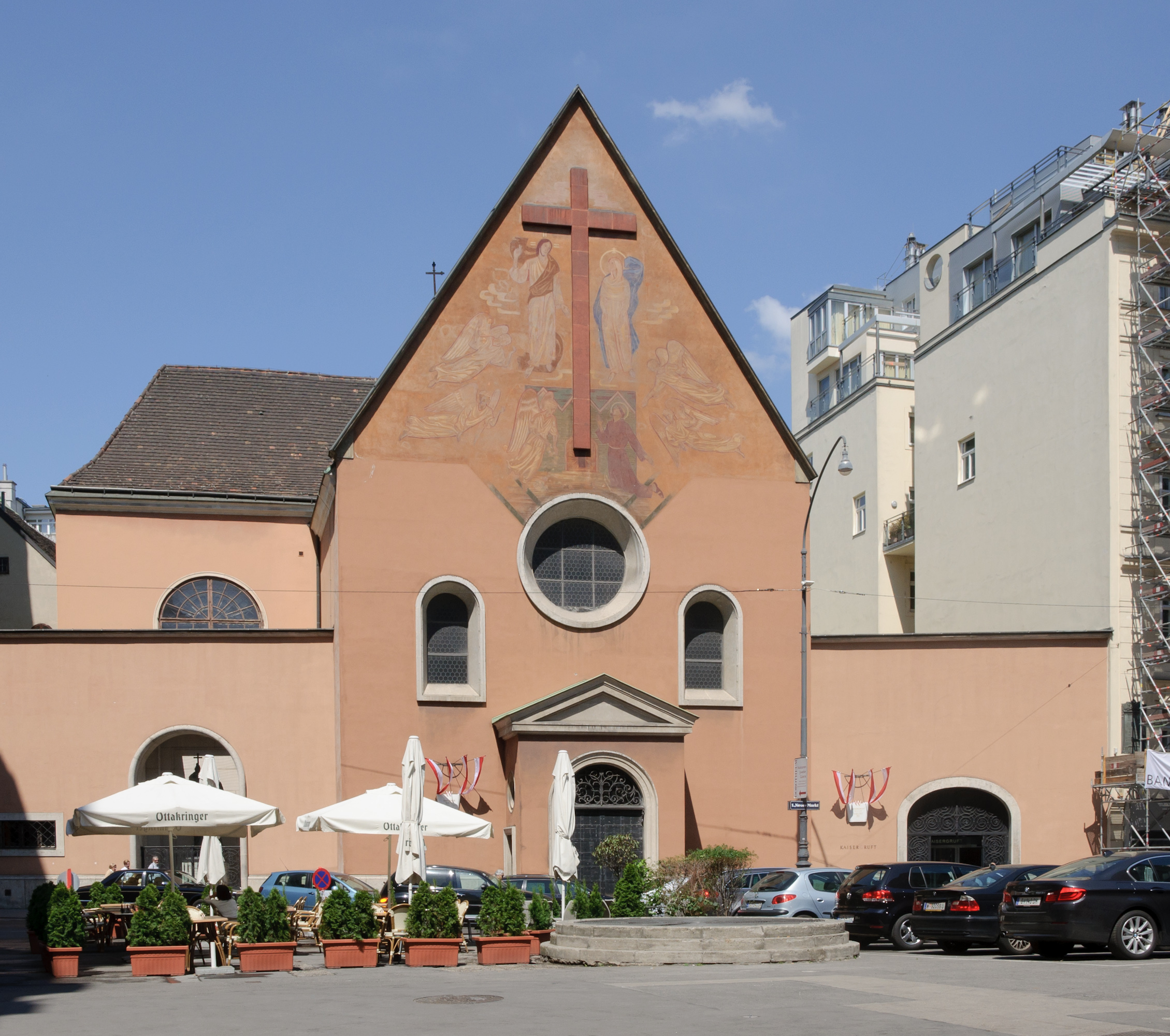 The Capuchin Church in Vienna.